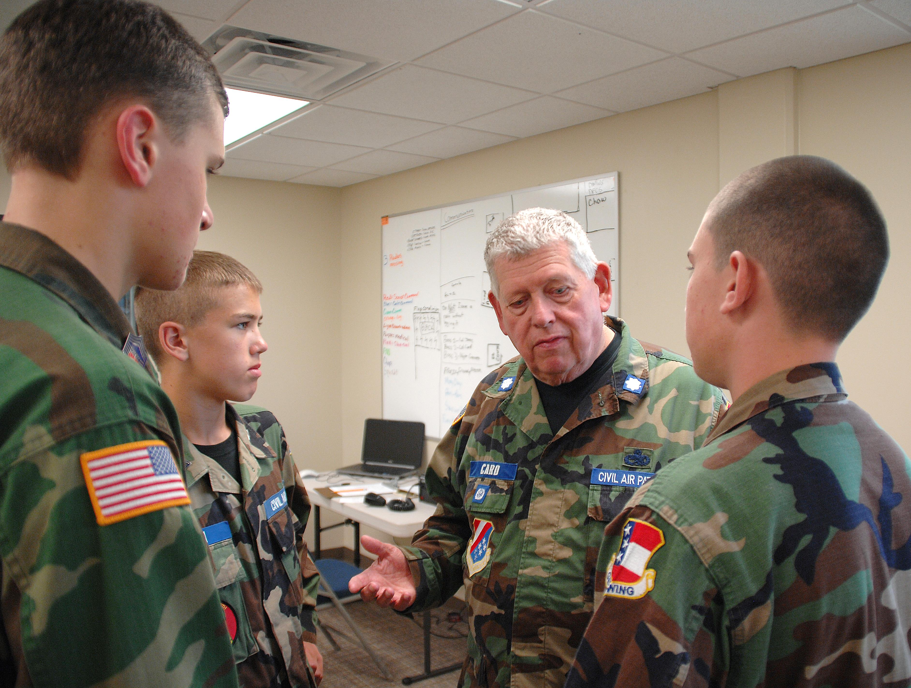 MARINE CORPS LOGISTICS BASE ALBANY - Lt. Col. James Card, (center), assistant director of communications and licensing officer, Georgia Wing Civil Air Patrol, mentors with young cadets during Georgia Wing CAP’s weeklong summer encampment at Marine Corps Logistics Base Albany, July 21-25.